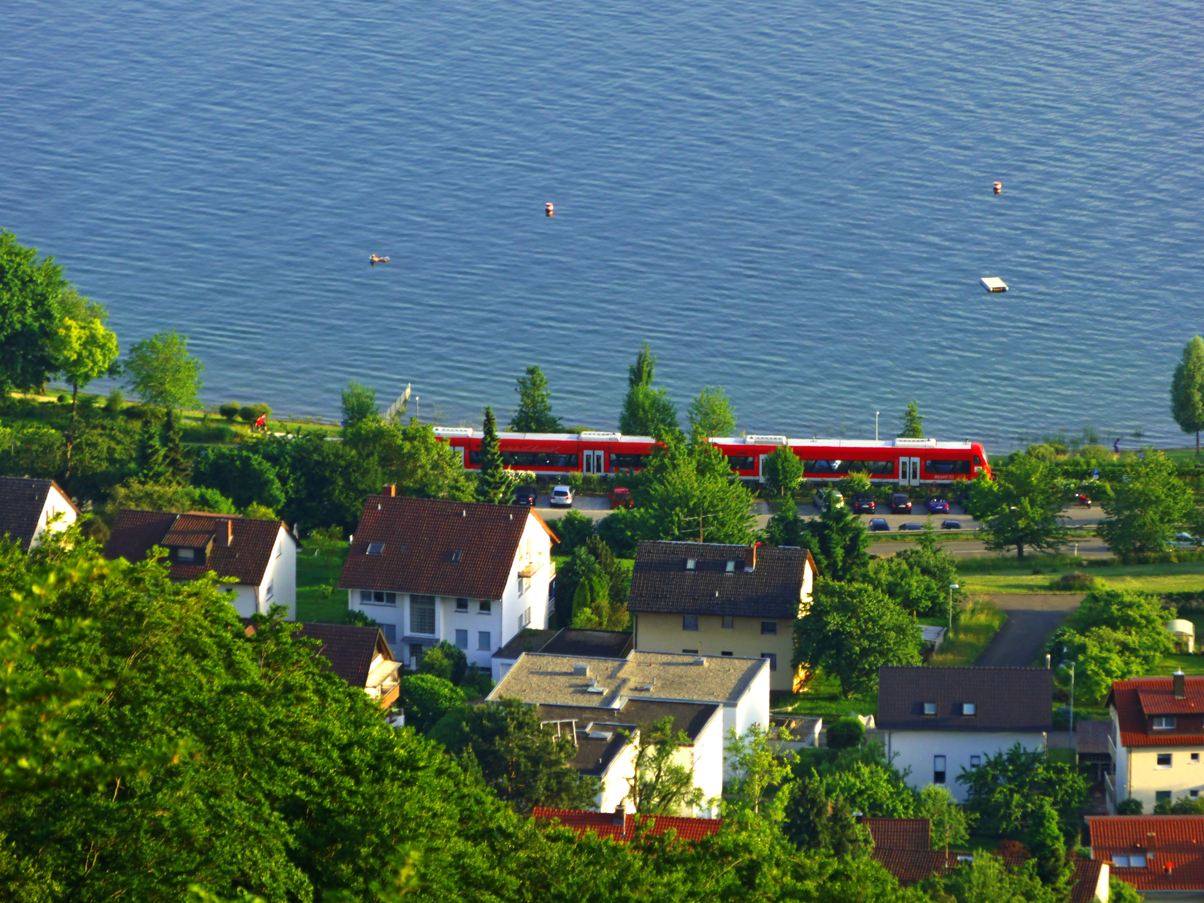 Train